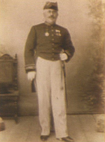 Panos Kourtzis in diplomatic uniform.